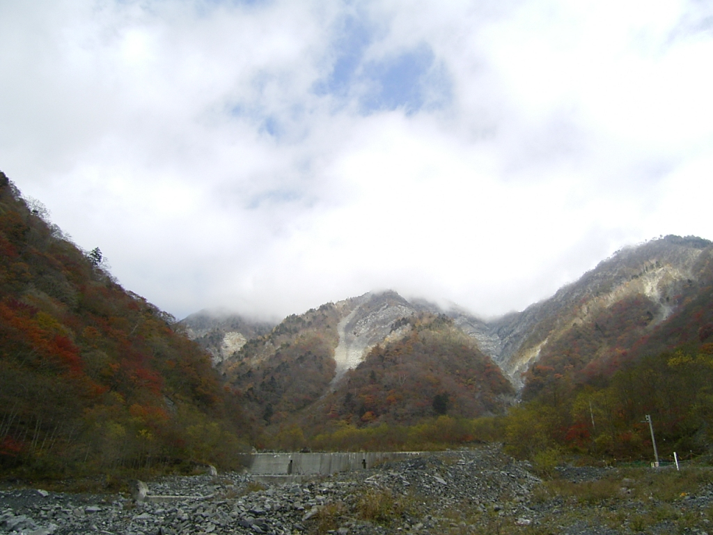 Oyakuzure Shizuoka city Shizuoka Japan